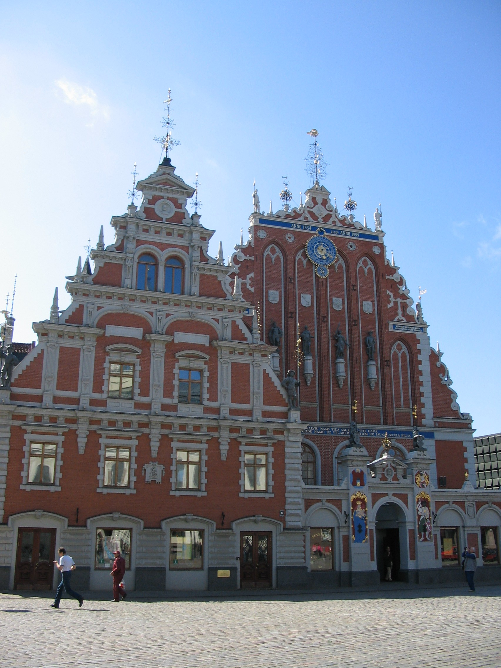 eigen-foto - house of the blackheads